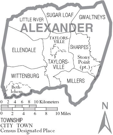 Map of Alexander County, North Carolina, United States with township and municipal boundaries